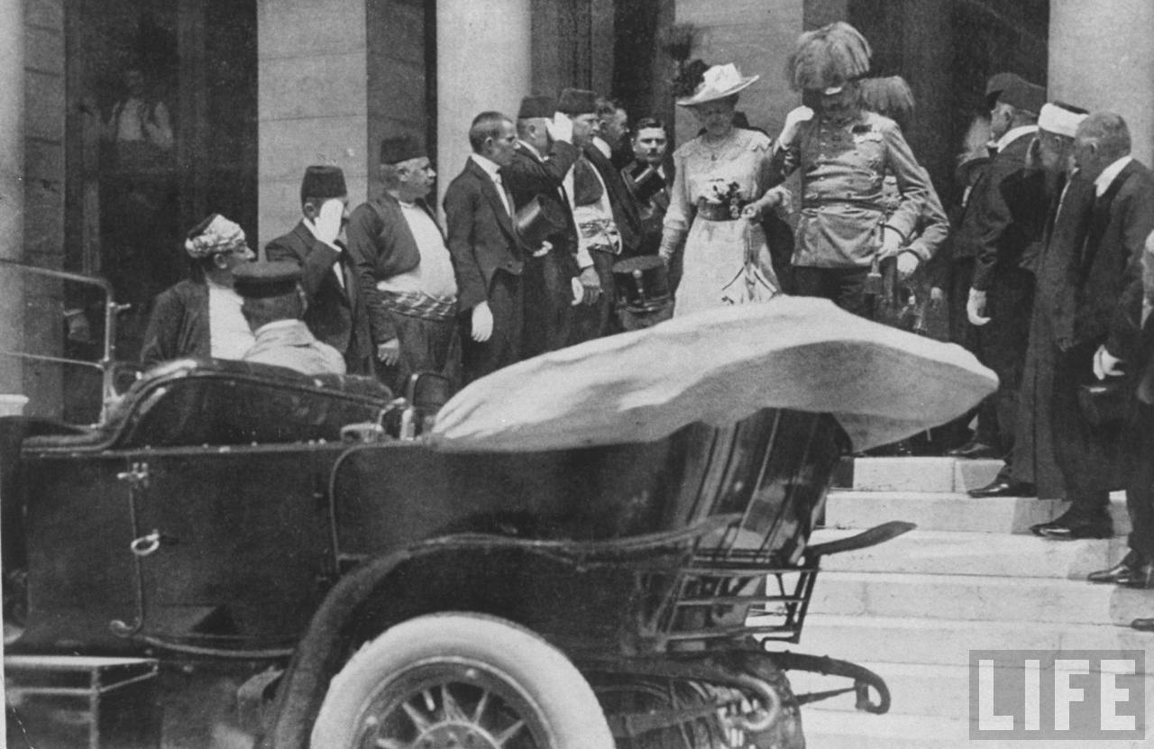 Franz Ferdinand and his wife Sophie leave the Sarajevo Guildhall after reading a speech on June 28 1914. They were assassinated five minutes later.